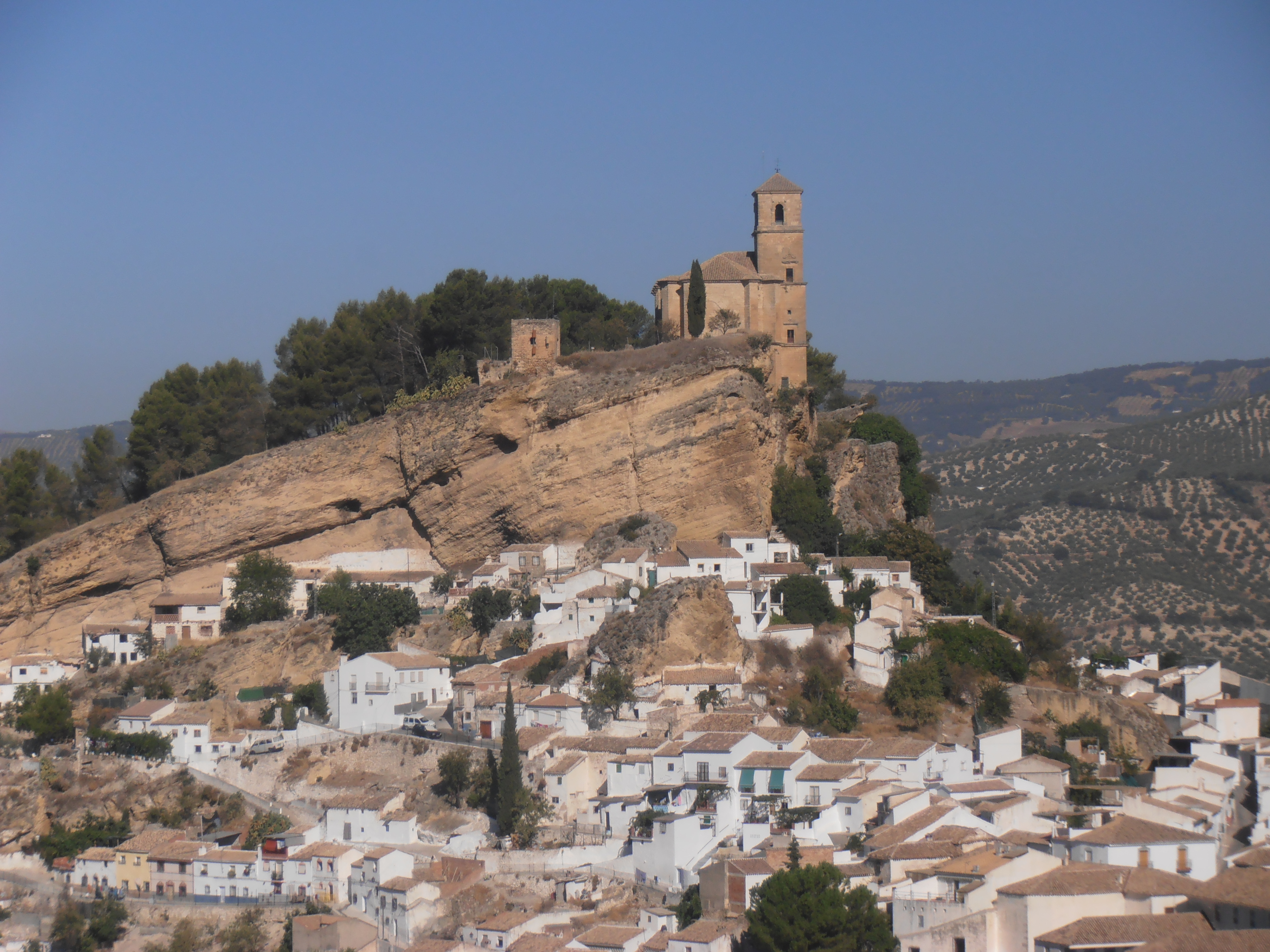 CASTHEL OF MONTEFRIO. GRANADA.